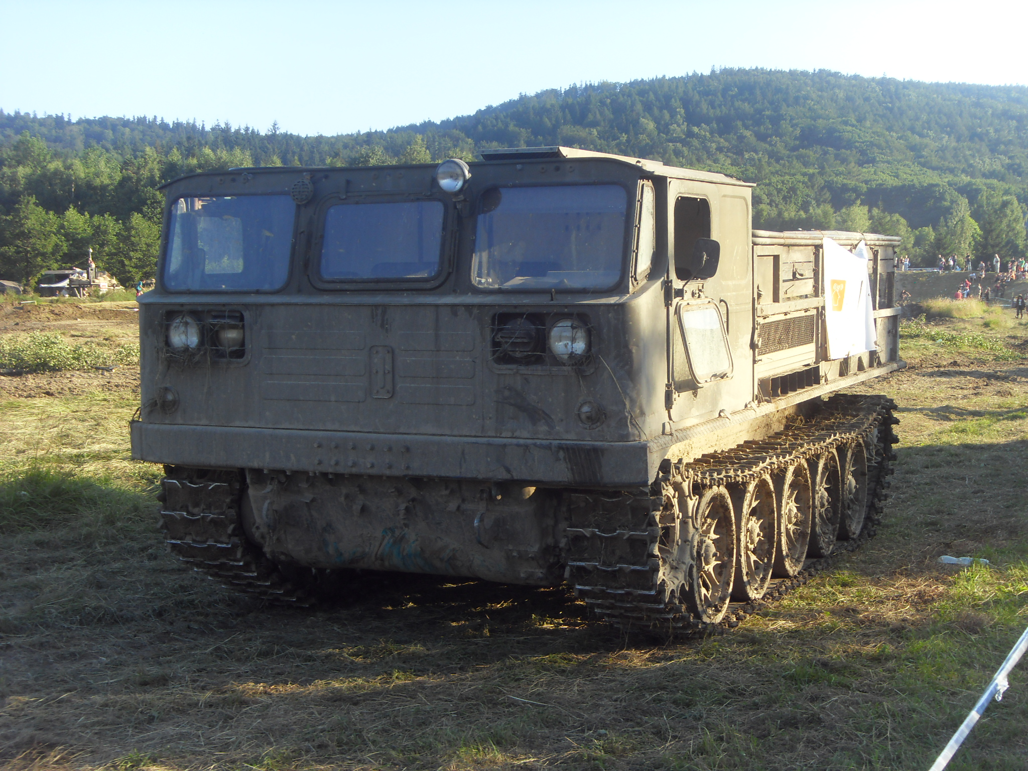 ATS 56G during Operacja Południe 2011